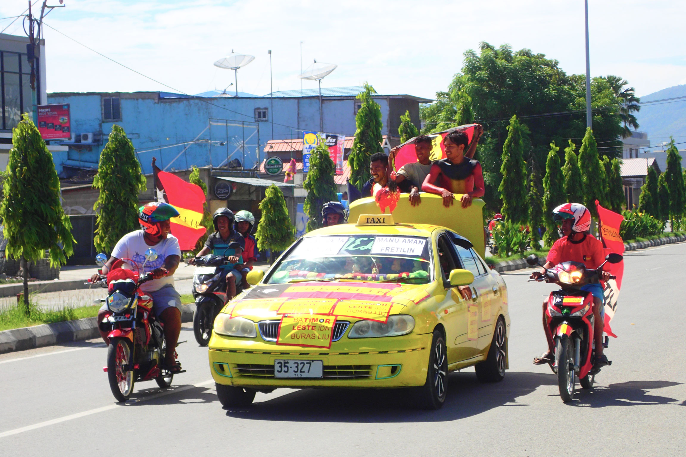 FRETILIN taxi in Dili 3 days before the election